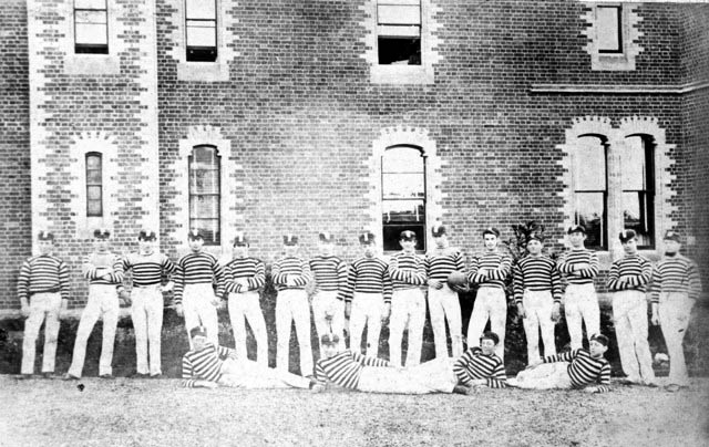 The Geelong College football team, whose blue and white colors inspired Geelong FC to adopt them as its uniform.